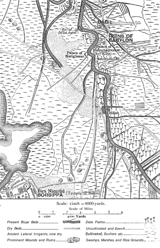 An illustration from the Encyclopaedia Biblica, a 1903 publication which is now in the public domain. Map for article "Babylon". Site plan of the ruins of Babylon, compiled from Surveys by Jones, Selby, Bewsher, and Collingwood, 1845-1865, with corrections up to 1885. It would be helpful if someone could add colour to the map (rivers, lakes, roads, walls, and other items mentioned in the key), to clarify it/ improve the aesthetic.